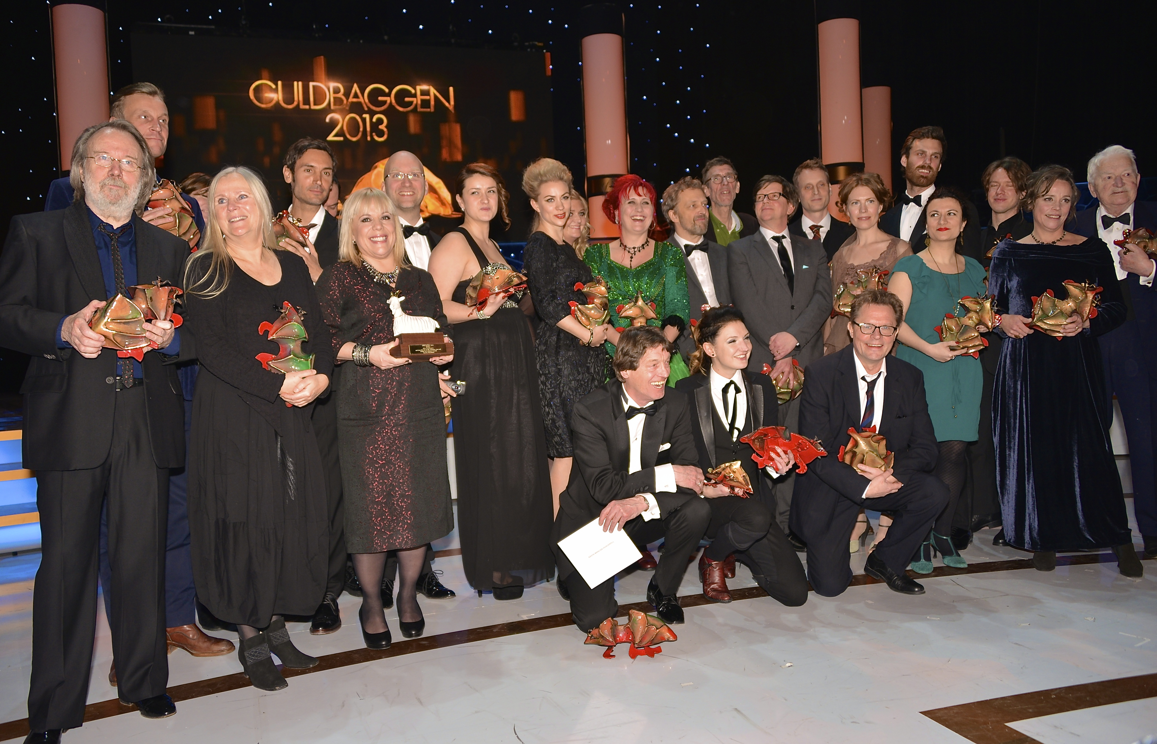 The Winner of Guldbaggen 2013 has just been appointed at Cirkus in Stockholm.